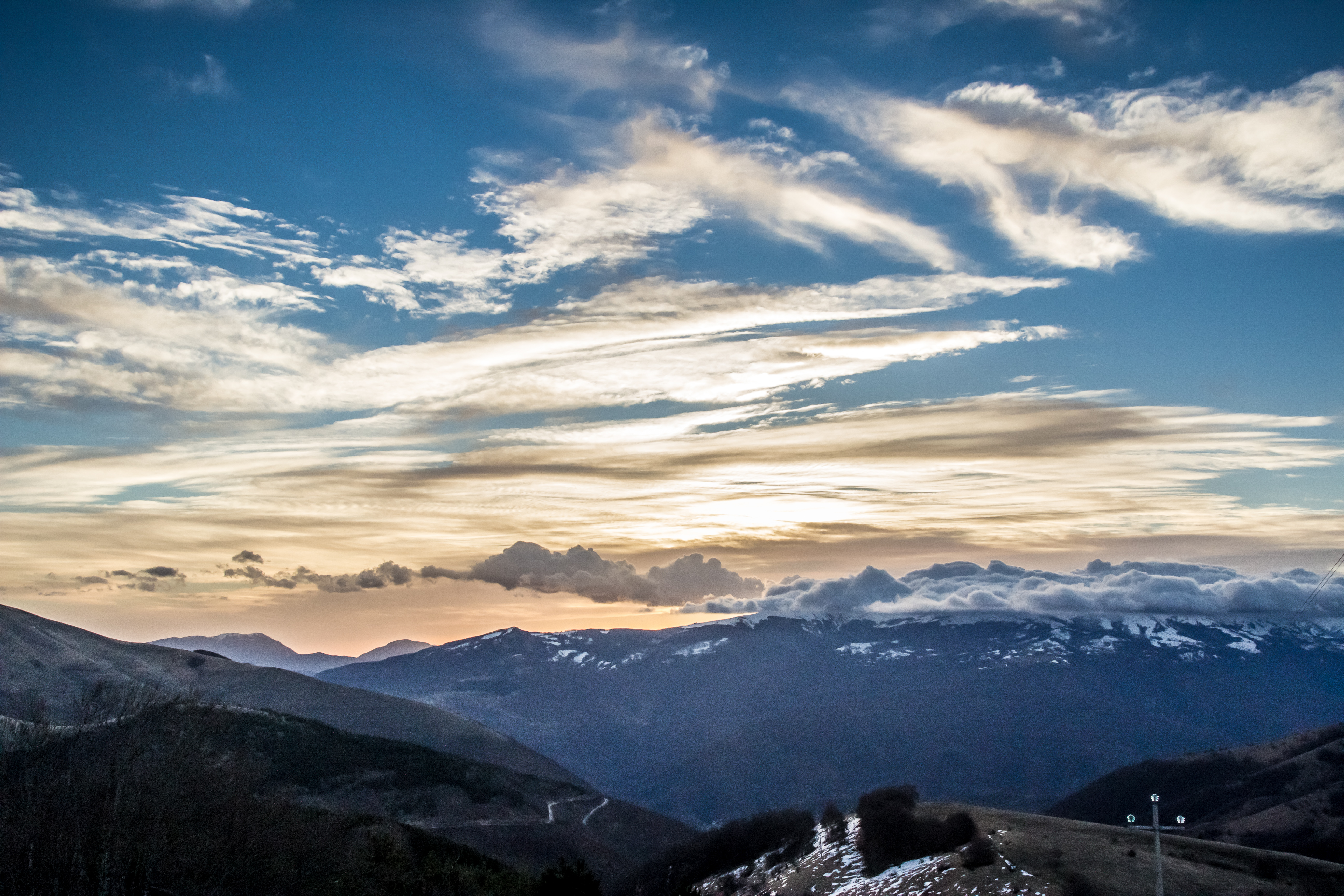 Area around Pantani di Accumuloli and surrounding mountains